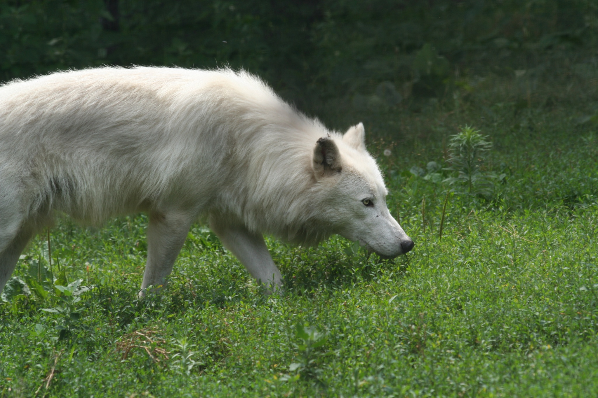 An arctic wolf, gently stalking forward. Taken at the Toronto Zoo with a Canon EOS 350D & 70-300mm f4-5.6 IS USM lens. – Ber'Zophus